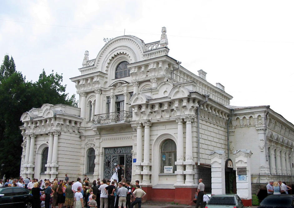 A building in Cherkasy:Cherkasy, Ukraine.